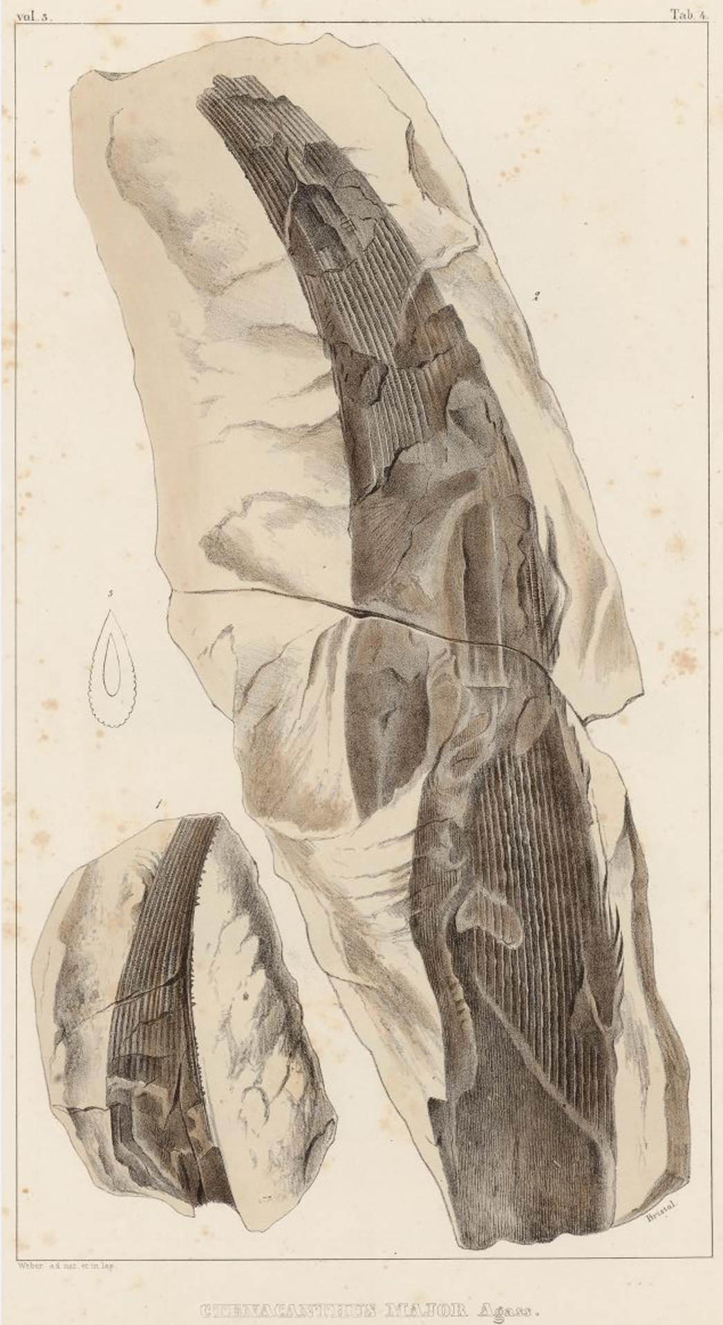 Plate of Ctenacanthus major from Agassiz